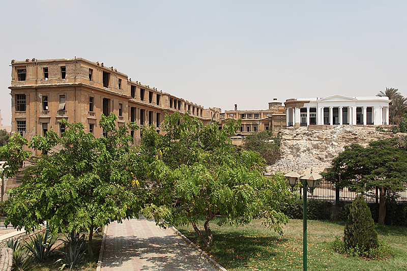 Palace of King Faruq, Helwan, Egypt